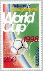 Stamp of Armenia